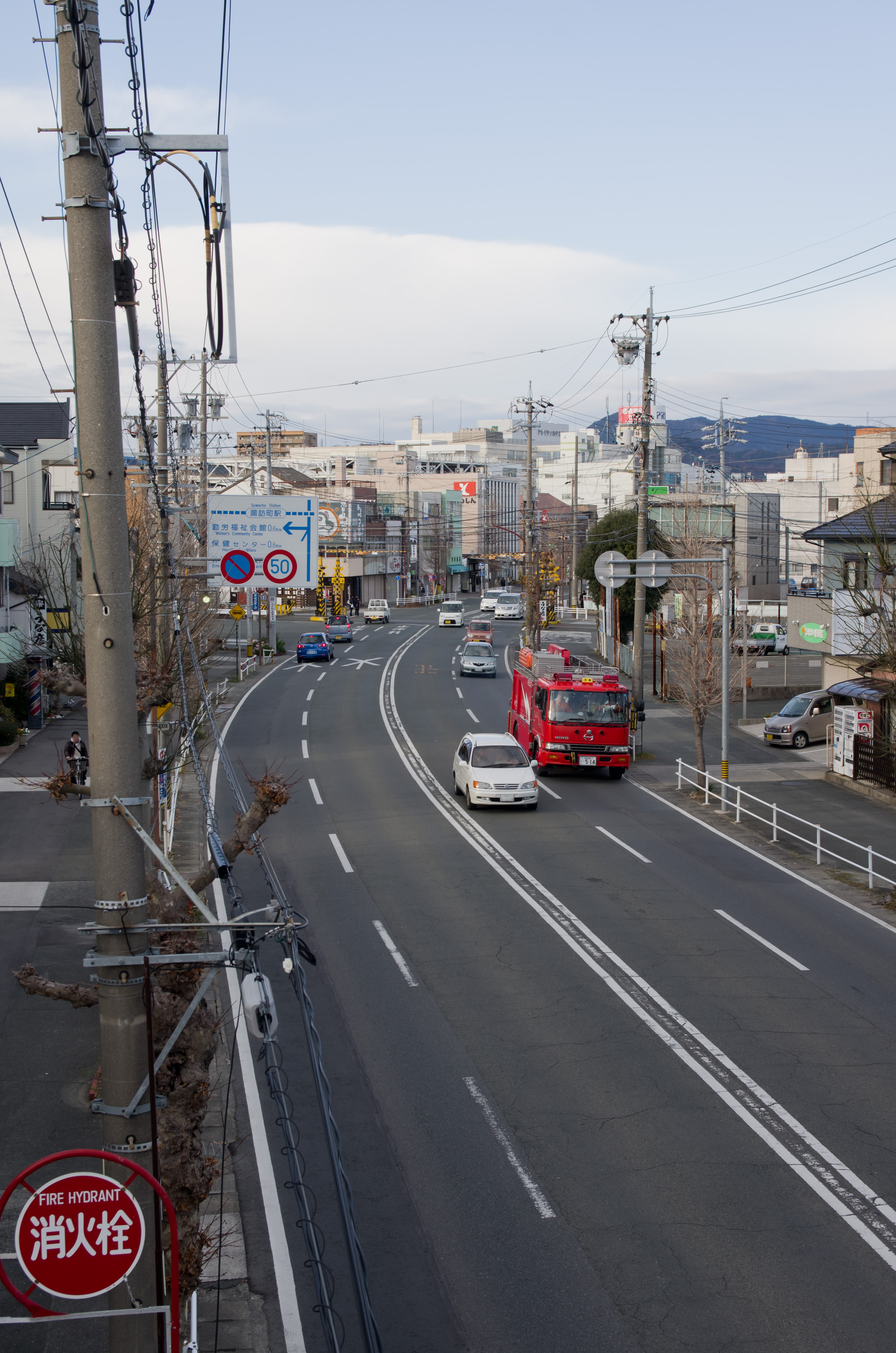 The Aichi Prefectural Road Route 400 as seen from Daida Bridge in Toyokawa City, view towards Suwa neighbourhood